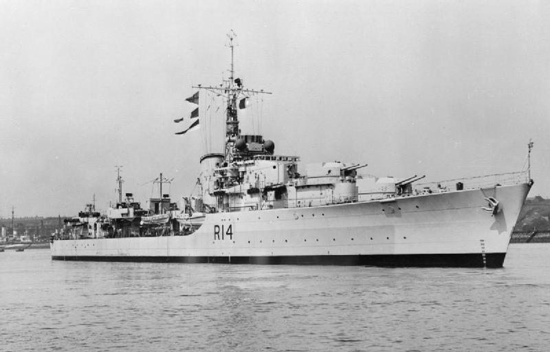 HMS ARMADA, a Battle class destroyer completed toward the end of the war, Underway coastal waters. Pennant No R14